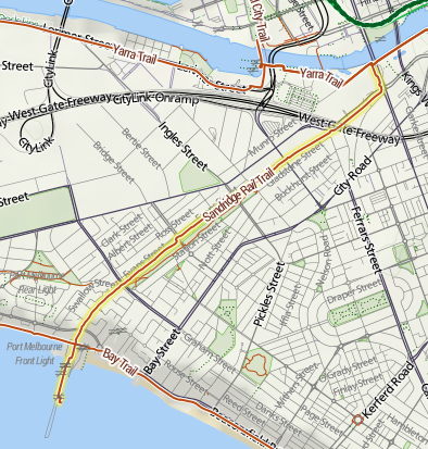 Sandridge Rail Trail Cartography by Steve Bennett, data by OpenStreetMap contributors.